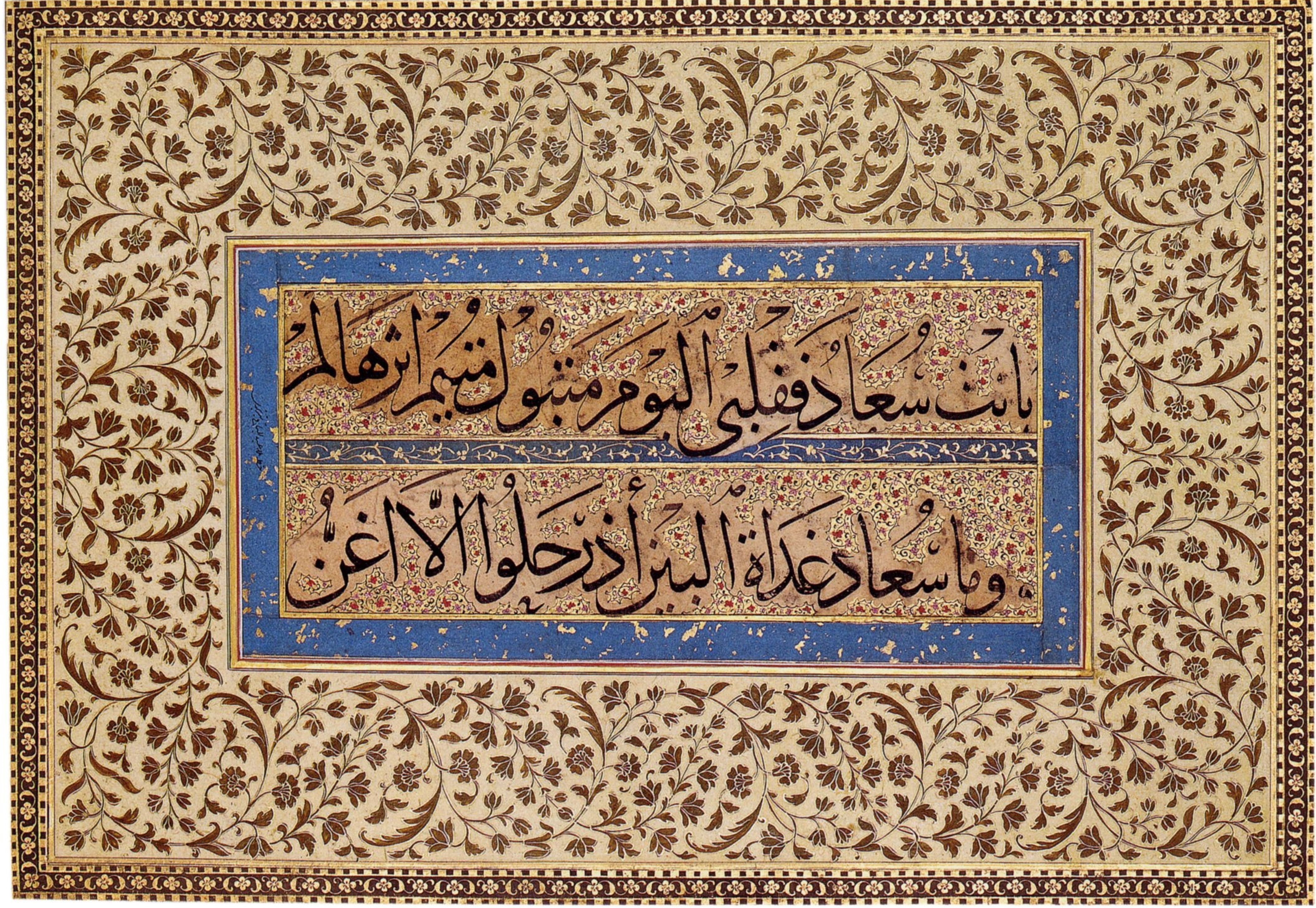 Calligraphy containing the beginning of the poem Al Burda by Kaab bin Zuhair.